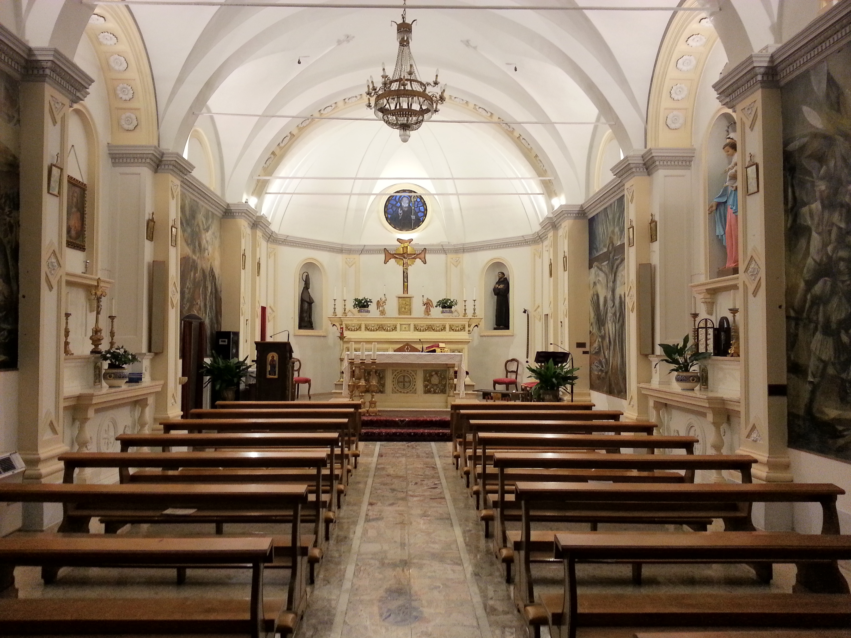 Interni Chiesa di San Benedetto con affreschi del futurismo, Badiola